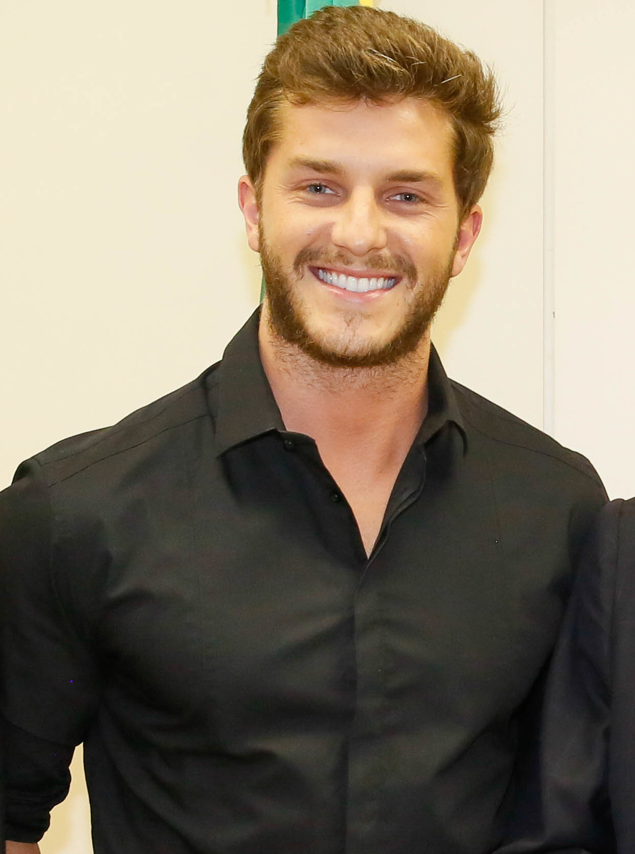 Klebber Toledo se reúne com o vice-presidente Michel Temer.